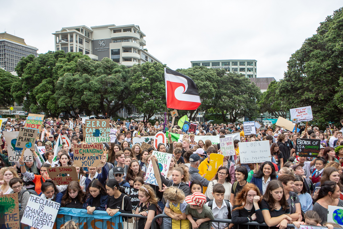 Young people in the School Strike for Climate in Wellington, New Zealand